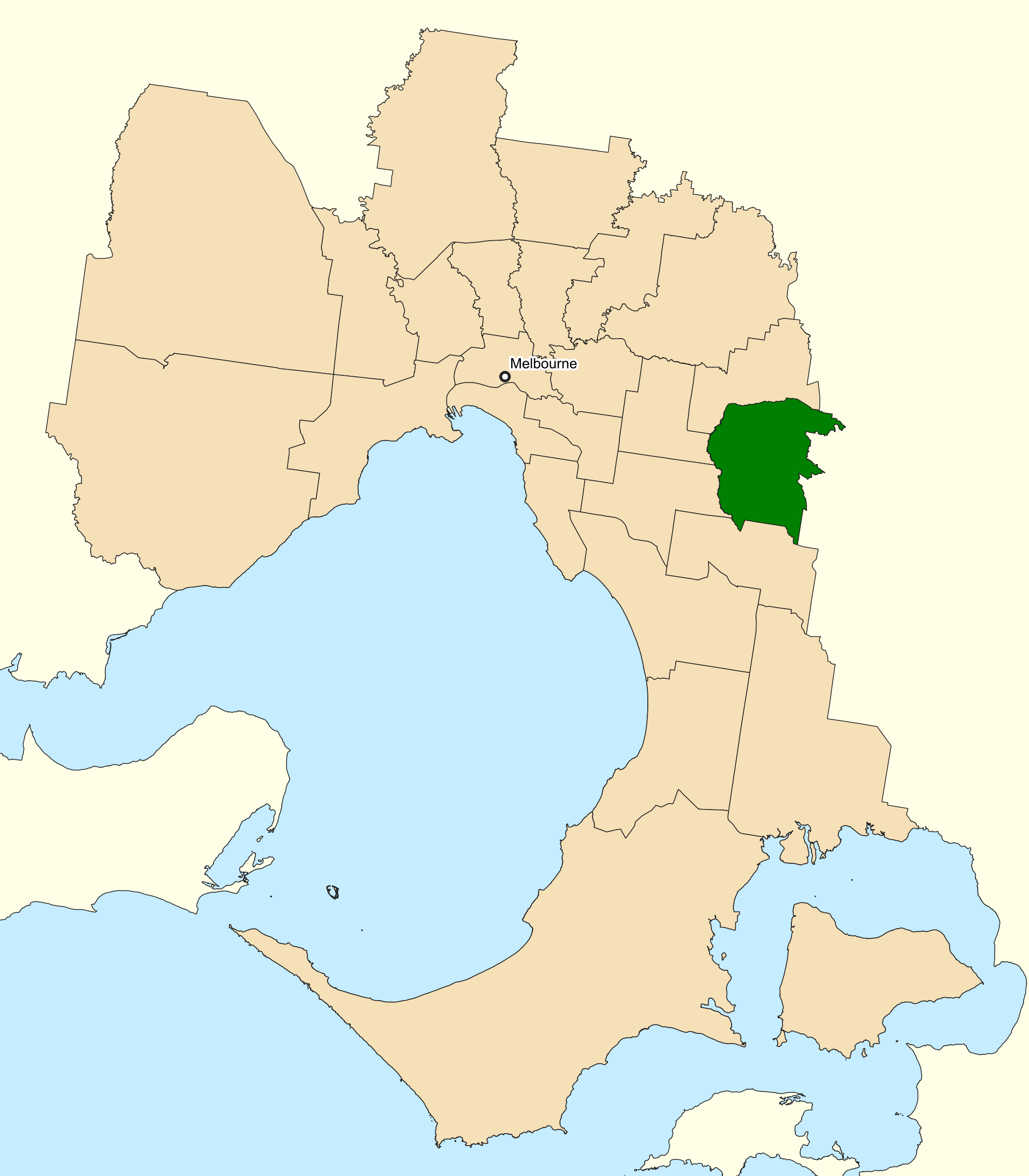 Location of the Australian federal electoral division of Aston (dark green) in Greater Melbourne, Victoria as of the 2019 Australian federal election. Incorporates or developed using Administrative Boundaries ©PSMA Australia Limited licensed by the Commonwealth of Australia under Creative Commons Attribution 4.0 International licence (CC BY 4.0).